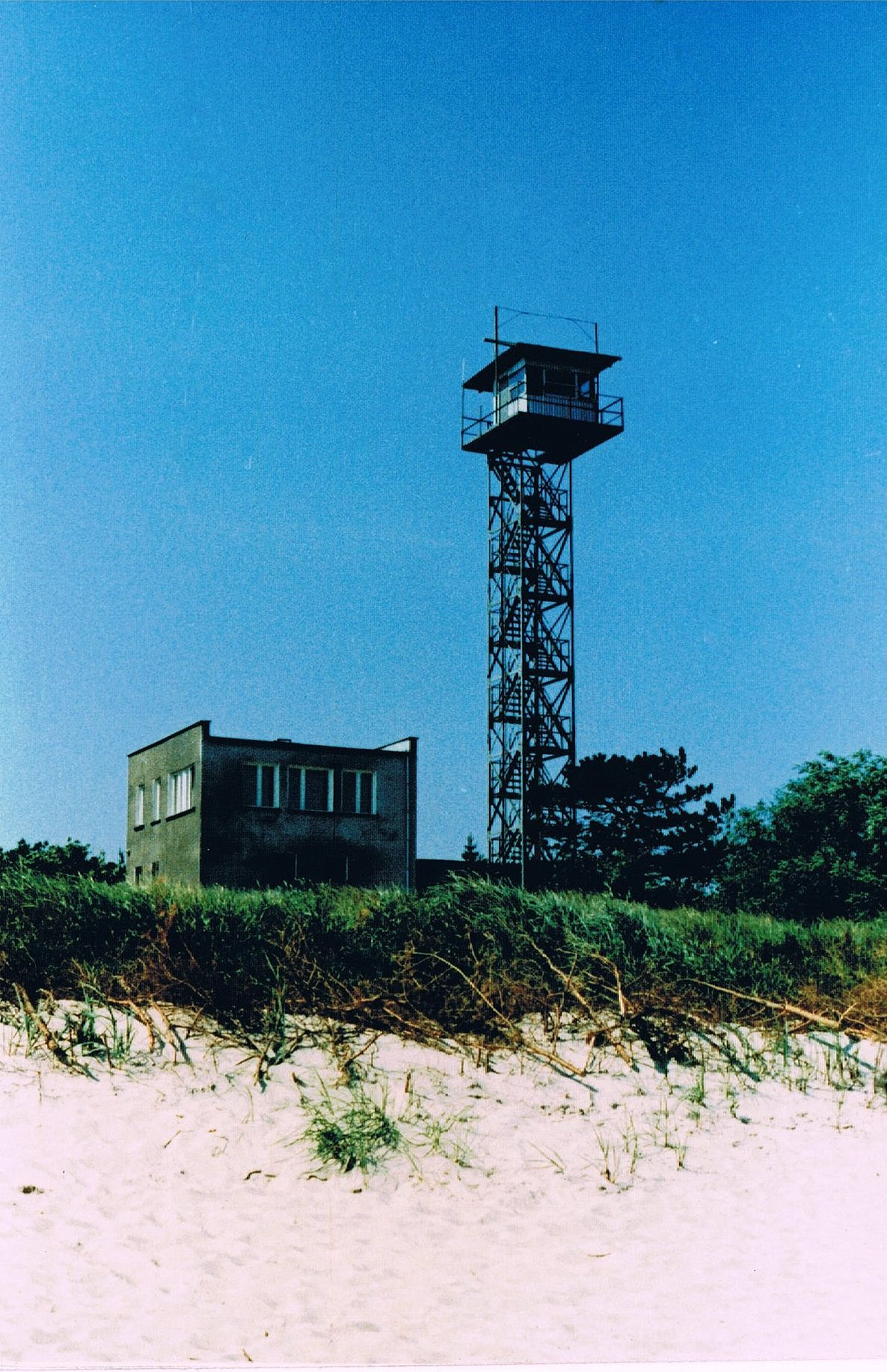 Border Protection Forces in Jastarnia